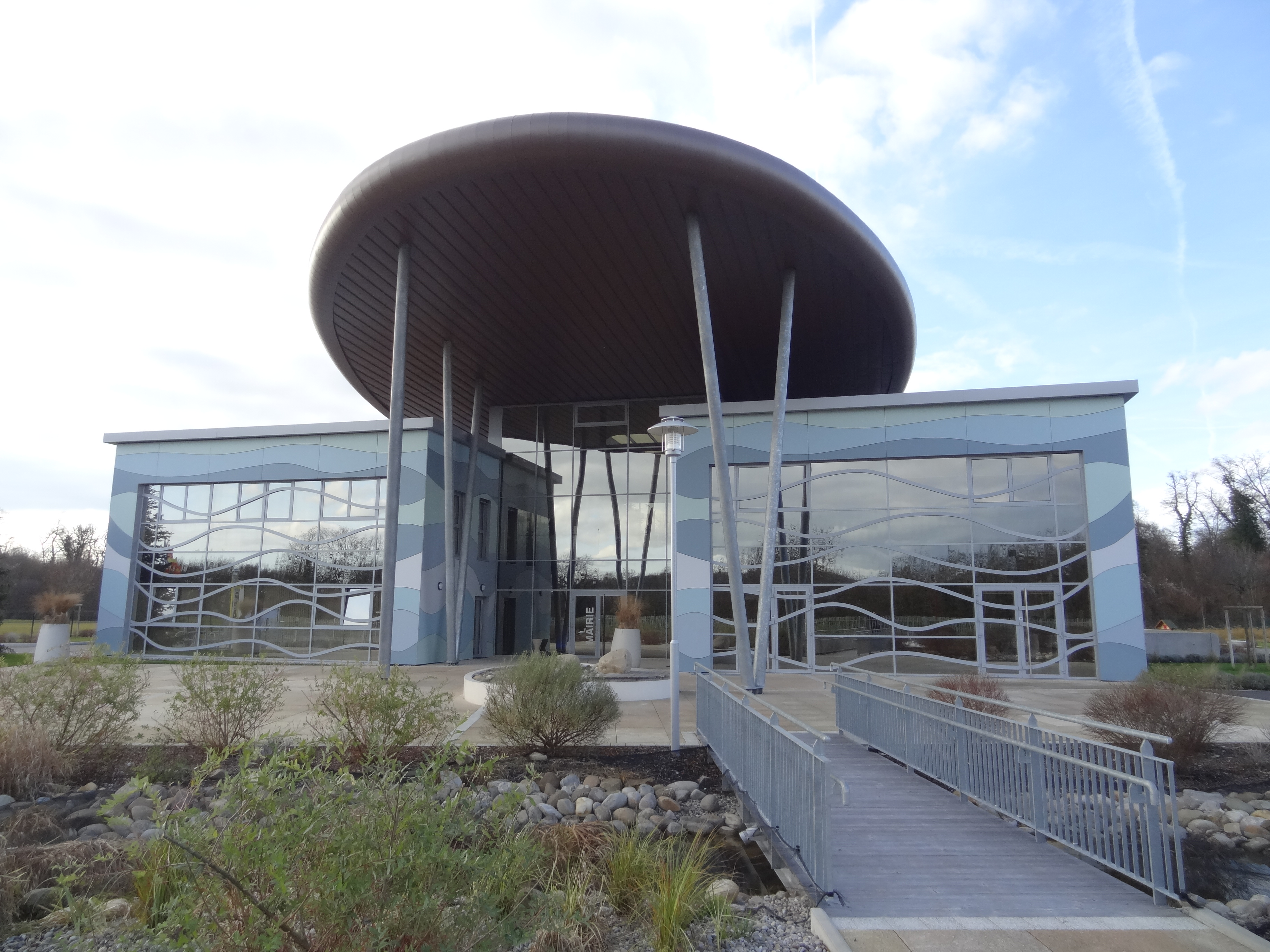 Town house in Kembs (Alsace, France), since the 14/04/2014.